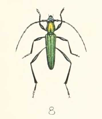 « Callichroma edentulum » = Cloniophorus edentulus